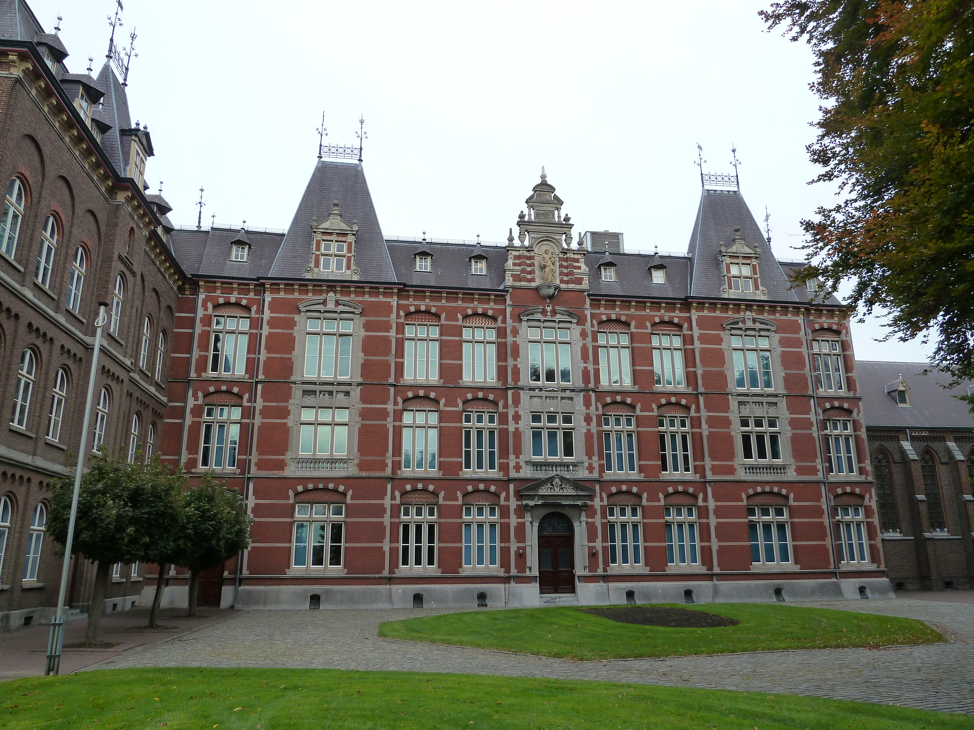 City hall, Breusterstraat 27, Eijsden, Limburg, the Netherlands